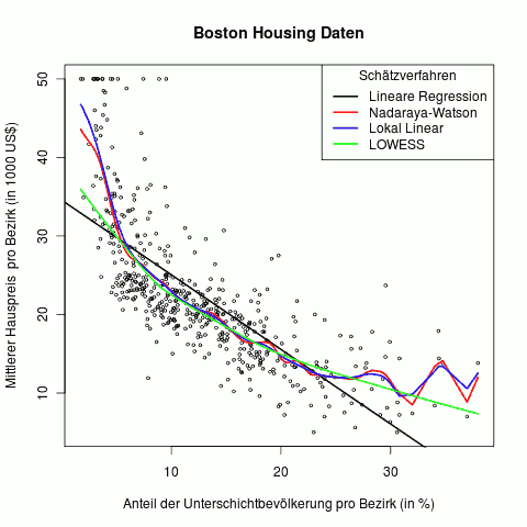 Local polynomial regression (Local constant and local linear), linear regression and LOWESS.